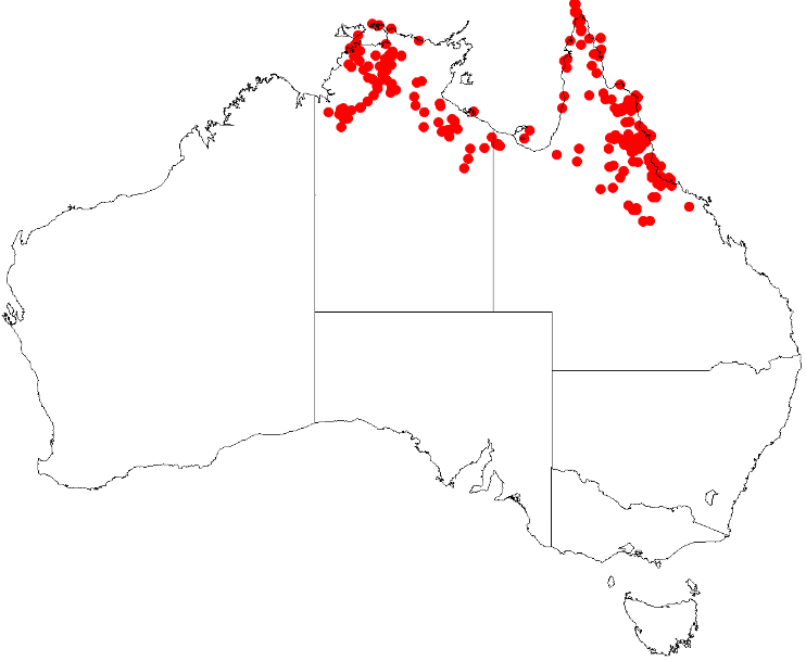 Haemodorum coccineum occurrence data from Australasian Virtual Herbarium on 12 May 2017